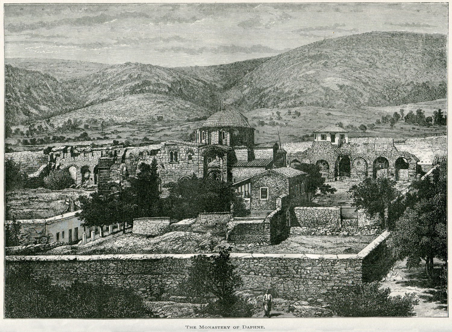 John Pentland Mahaffy. Greek Pictures, drawn by Pen and Pencil, by J. P. Mahaffy, London, The Religious Tract Society, 1890